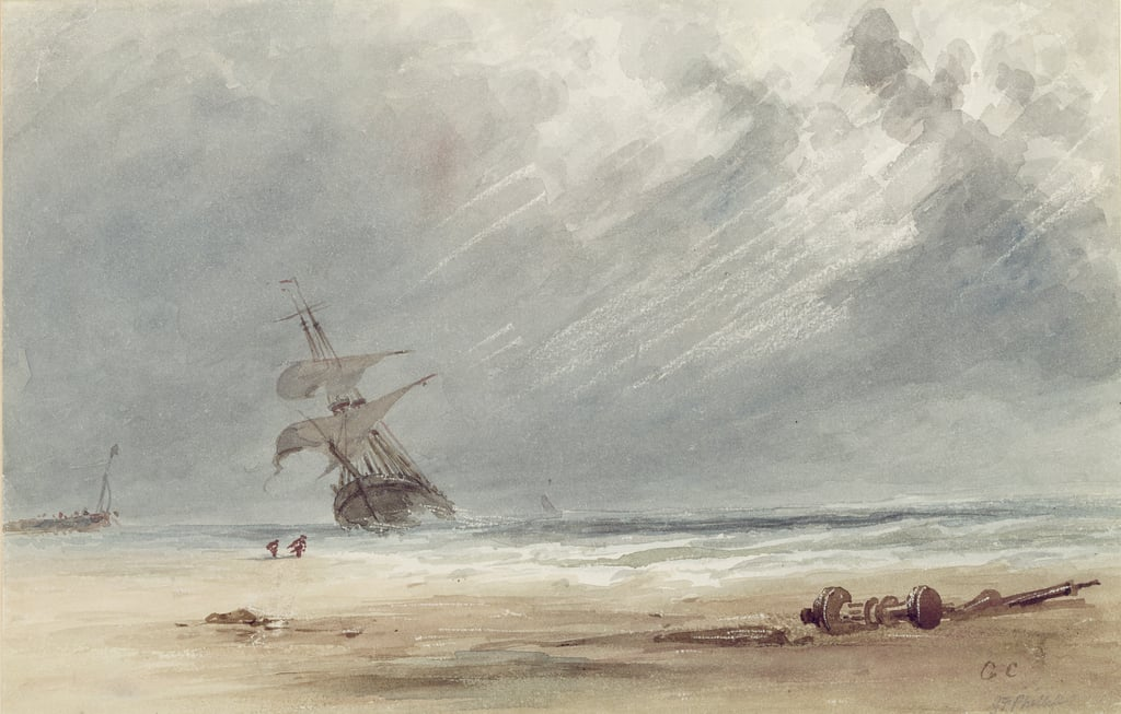 Watercolor painting by Giles Firman Phillips (1780-1867)